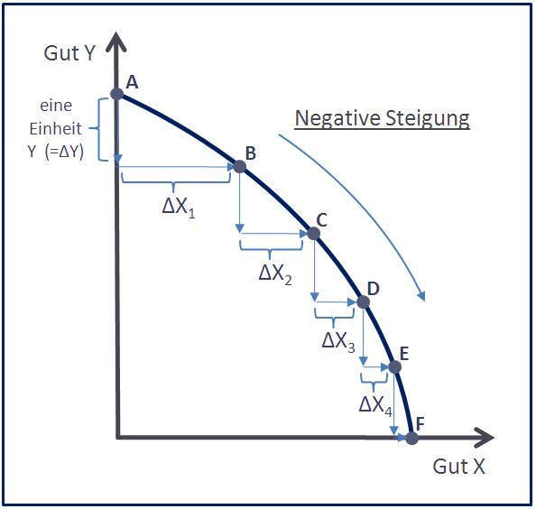 Slope of transformation curve